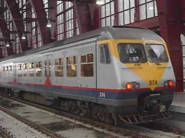 This image was copied from . The original description was: Een Break te Antwerpen, eigen foto